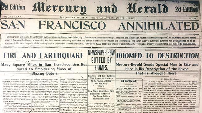 The front page of the afternoon edition of the Mercury and Herald (San Jose, California) on April 19, 1906, the day after the San Francisco earthquake of 1906.